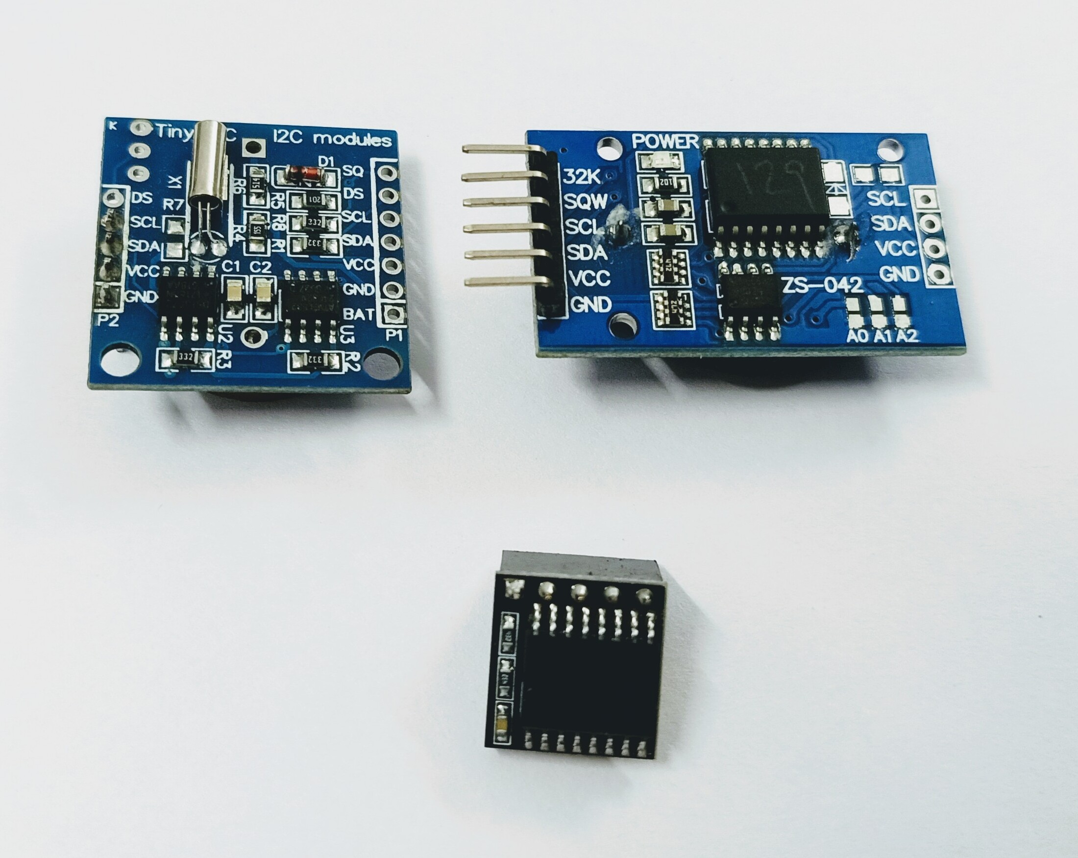 different type of real-time-clock modules